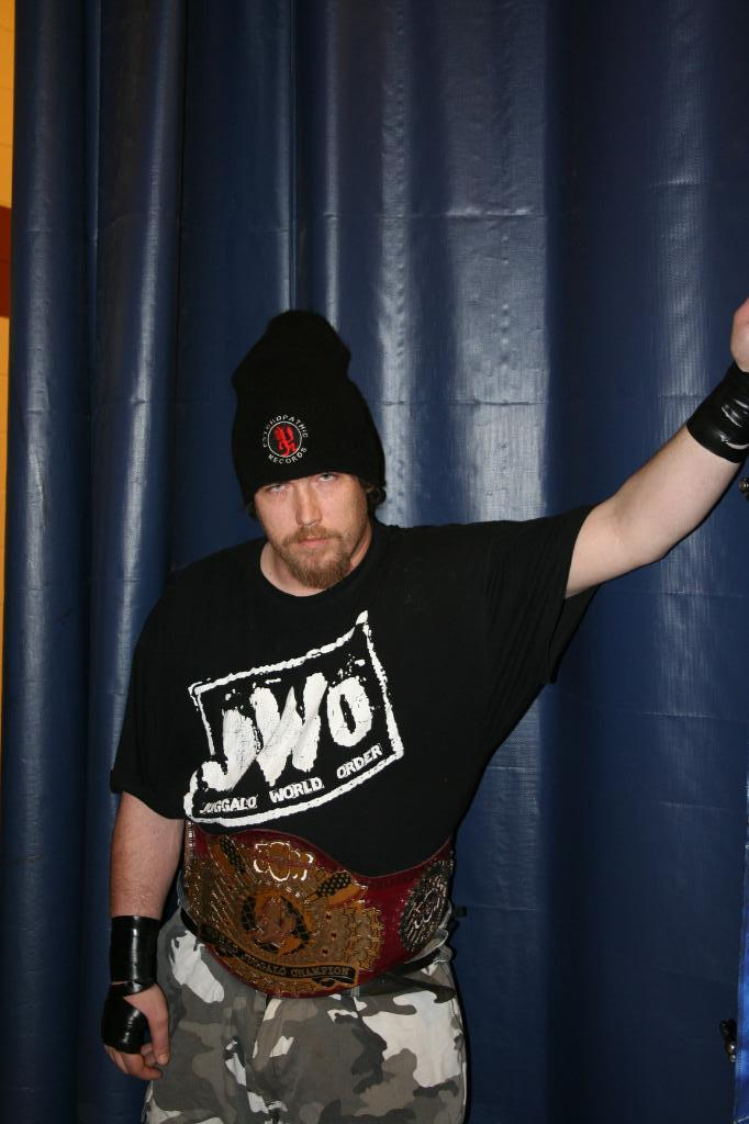 Corporal Robinson at IWA-MS 500th show